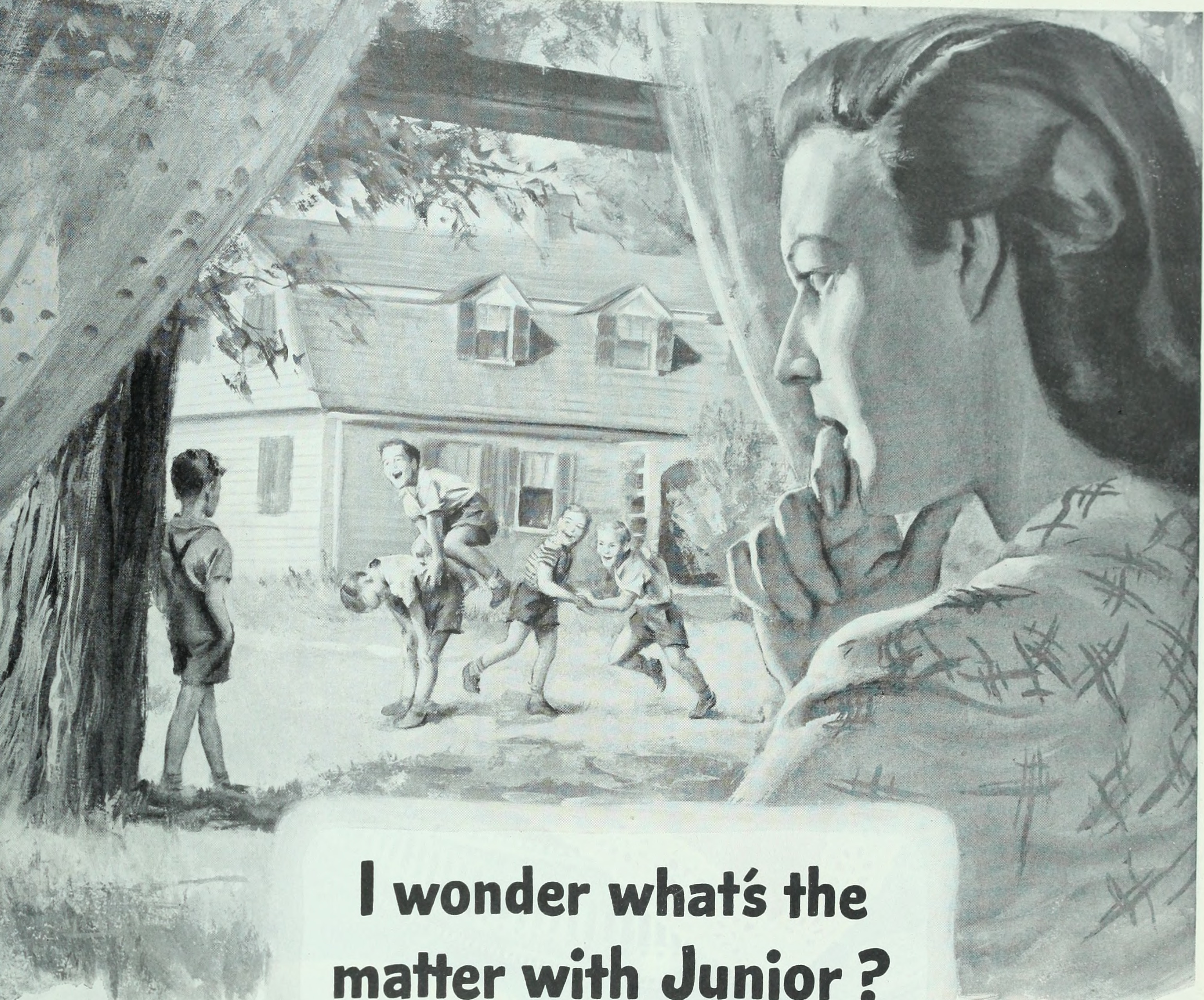 Title: The Ladies' home journal Year: 1889 (1880s) Authors: Wyeth, N. C. (Newell Convers), 1882-1945 Subjects: Women's periodicals Janice Bluestein Longone Culinary Archive Publisher: Philadelphia : (s.n.) Text Appearing Before Image: LADIES HOME JOl K \ \l. 105 i Text Appearing After Image: I wonder whats thematter with Junior ? If your child is frail or under par — theres at least one thing* you can do — immediately ! READ WHAT YOU GET IN 2 GLASSES OF OVALTINE MADE WITH IWULK MO..C»U.UM»NOPHOS«.OtU» THAN Vh SAVINGS OfAMERICAN CHetSt